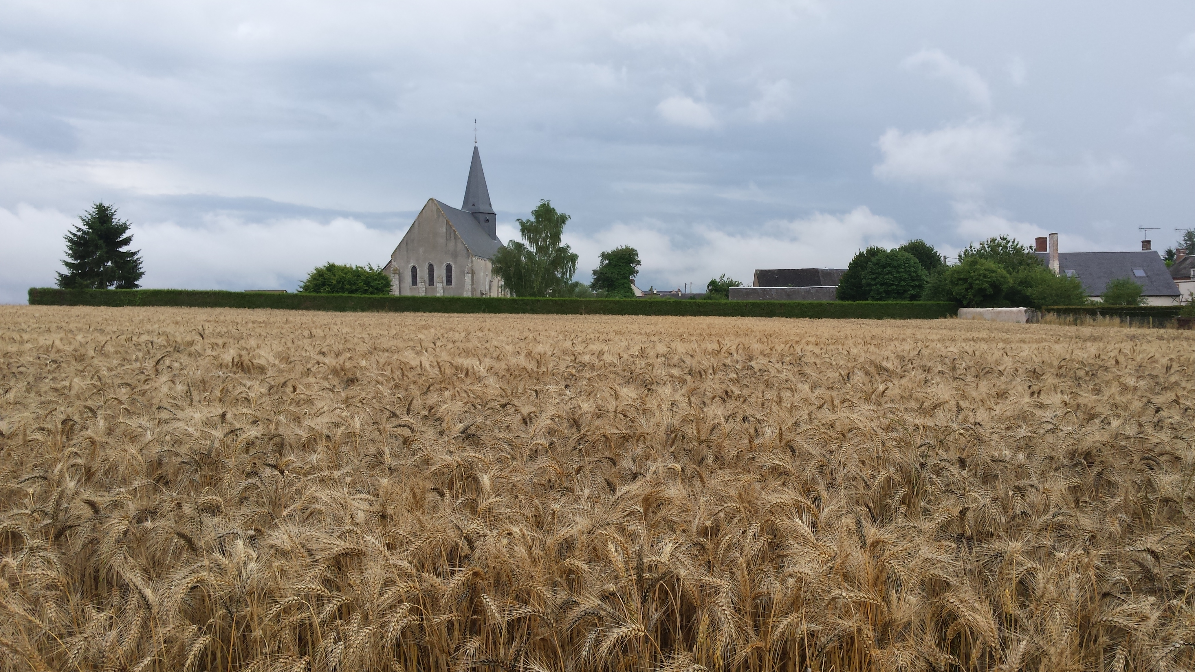 Conie-molitard's church